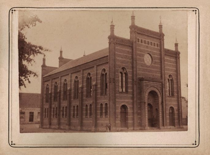 Synagogue in Flatow / Zlotow - Front view. Synagogue destroyed in 1938 by the nazis